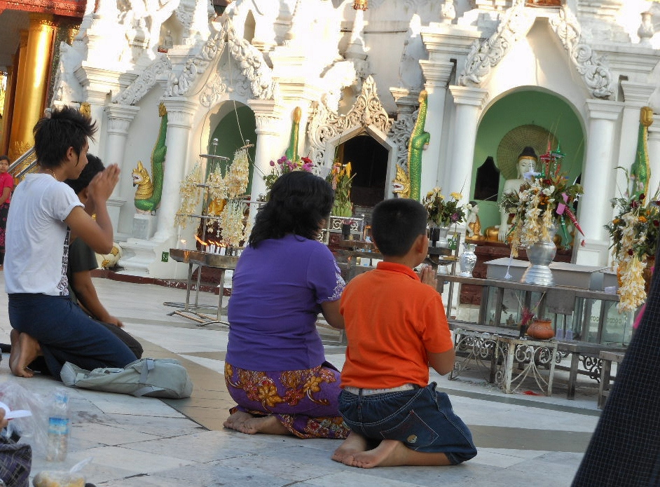 Yangon Myanmar temple Buddhist devotees praying